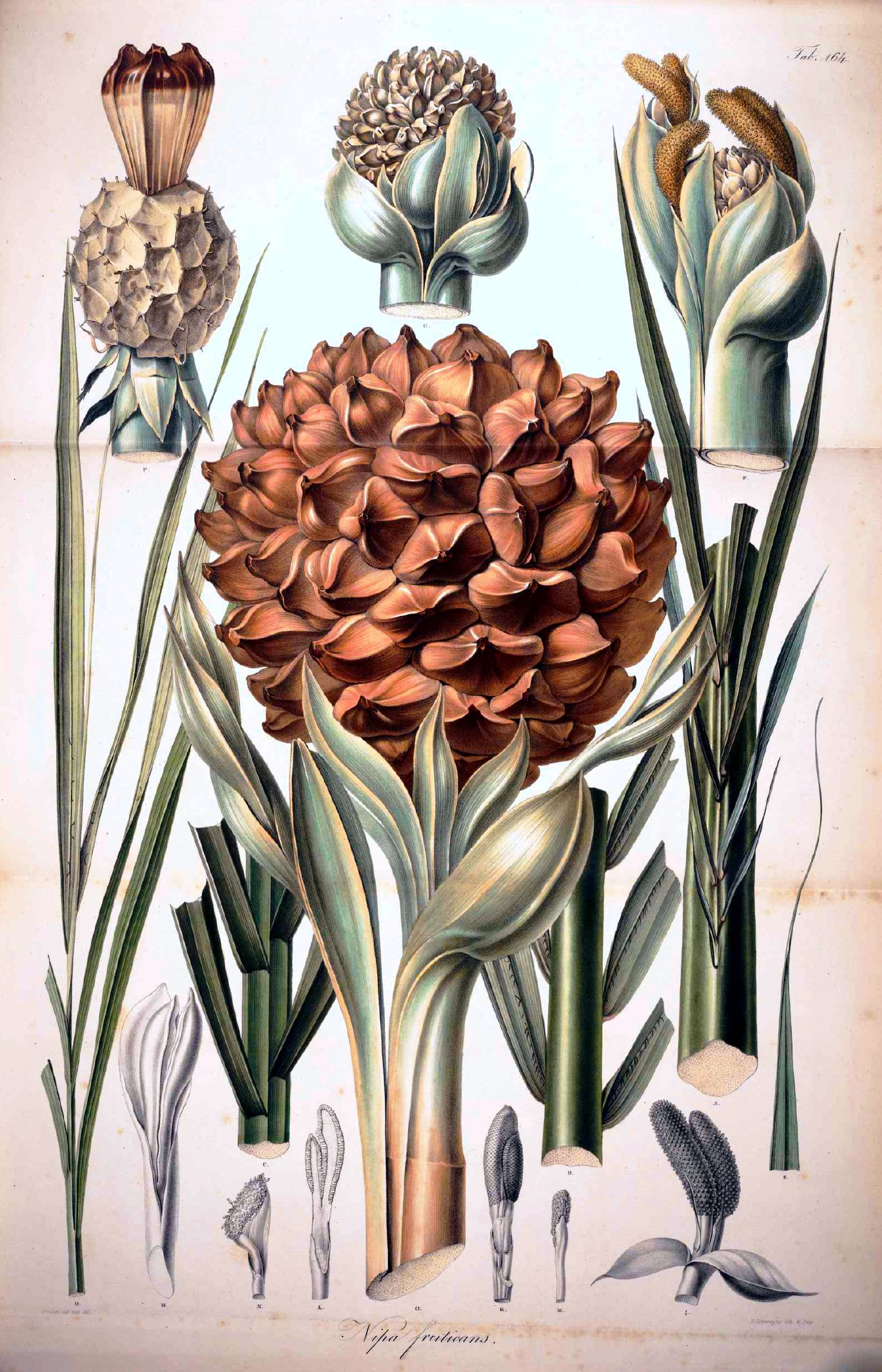 Rumphia, sive, Commentationes botanicÃ¦ imprimis de plantis IndiÃ¦ Orientalis :tum penitus incognitis tum quÃ¦ in libris Rheedii, Rumphii, Roxburghii, Wallichii aliorum recensentur /scripsit C.L. Blume cognomine Rumphius.By:Blume, Karl Ludwig,1796-1862.Arckenhausen.Henry, AimeÌ ,1801-1875.Payen.Sulpke, C. G.Publication info:Lugduni Batavorum [Leiden, the Netherlands] : [s.n.], 1835-48